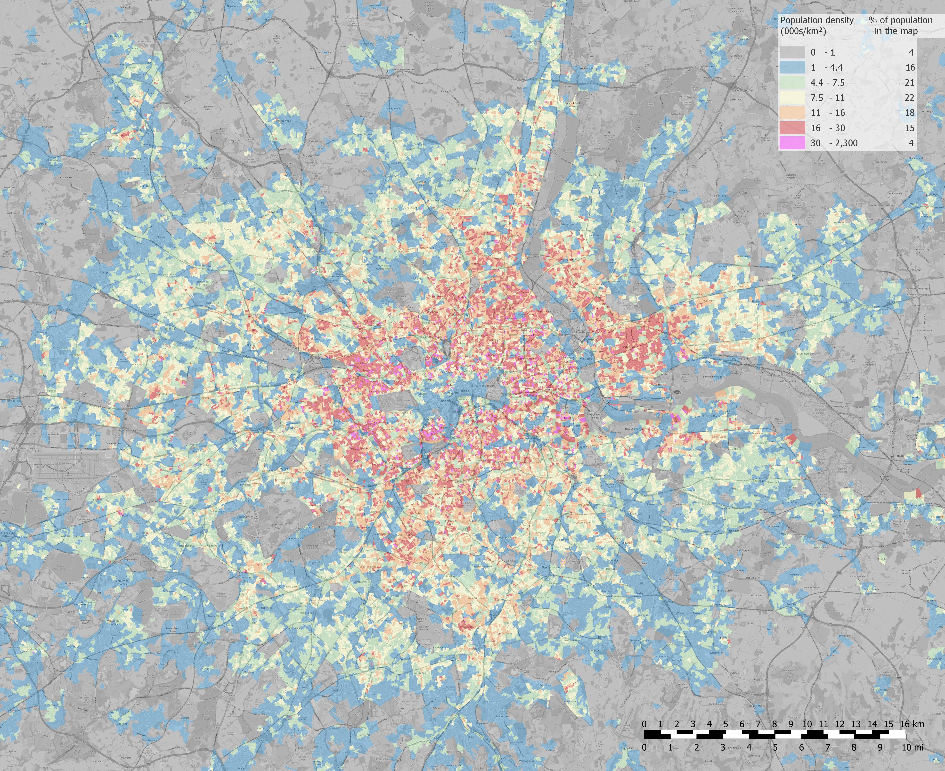 The map area was inhabited by 9.4 mln people in 2011 and shows most of Greater London Built-up Area (9.8 mln people in 2011) and some areas outside it. Population density computed from 2011 Output Area (OE) data there is on 2020 map so new neighbourhoods are visible in the grey zone. Values sometimes are not representative because: sometimes a whole nonresidential area is contained in one from a few adjacent OEs. sometimes OEs encompass only building, sometimes only part of it, to keep up stiff household count limit, what gives very high density. OE boundaries are visible, especially in red and pink.